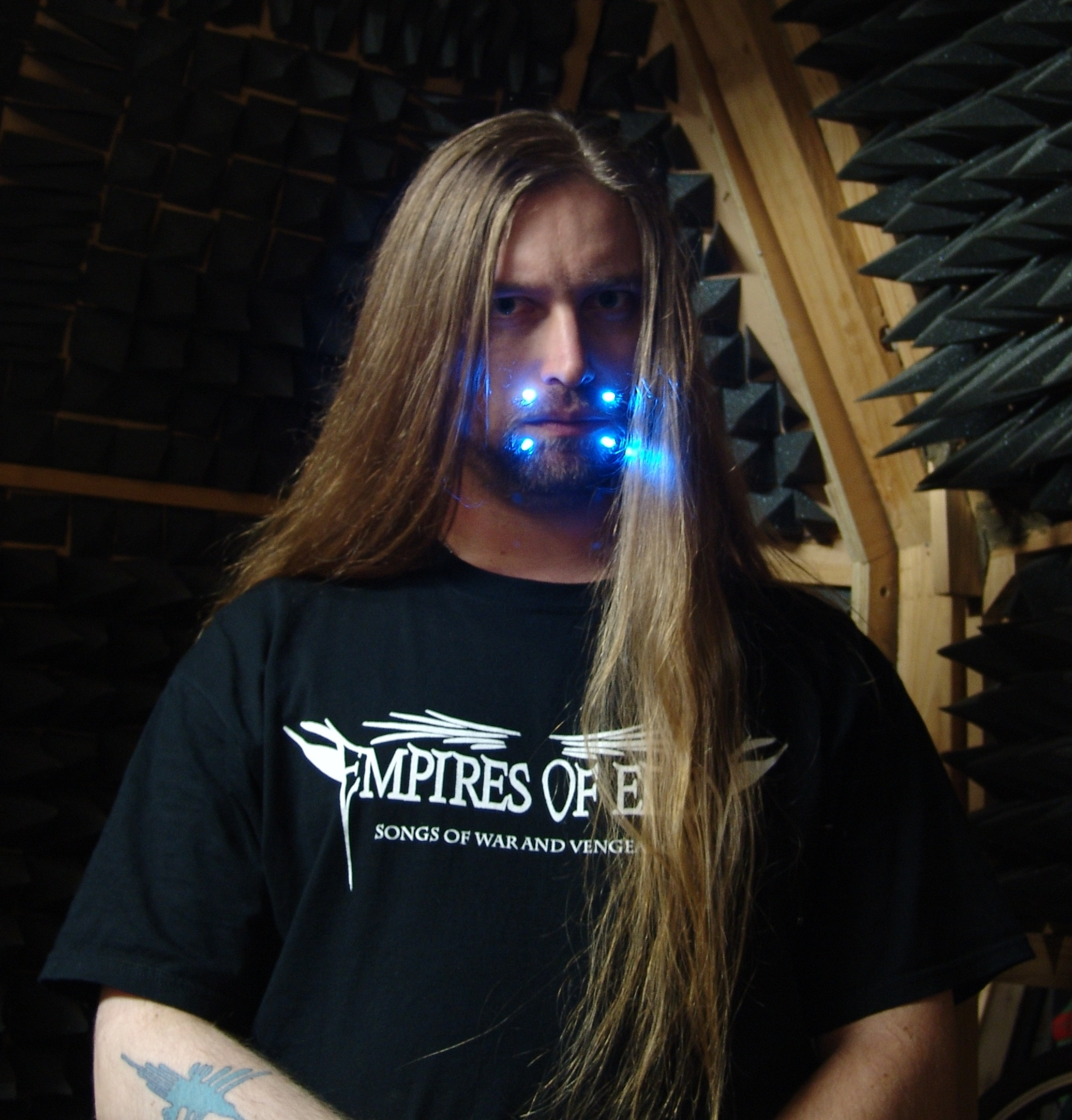 Self-portrait photograph of Gun Arvidssen